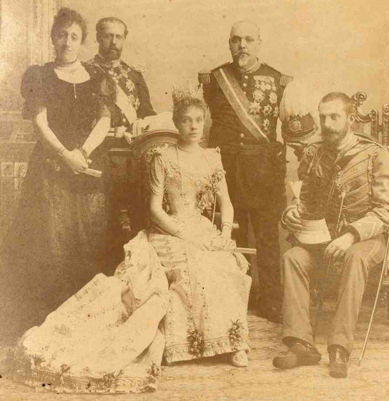 Infanta Maria Eulalia of Spain, later Maria Eulalia de Bourbon-Montpensier